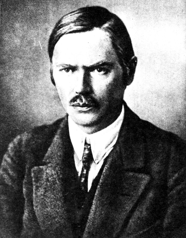 Steponas Kairys, engineer, social democrat, member of Constituent Assembly of Lithuania and Lithuanian Seimas